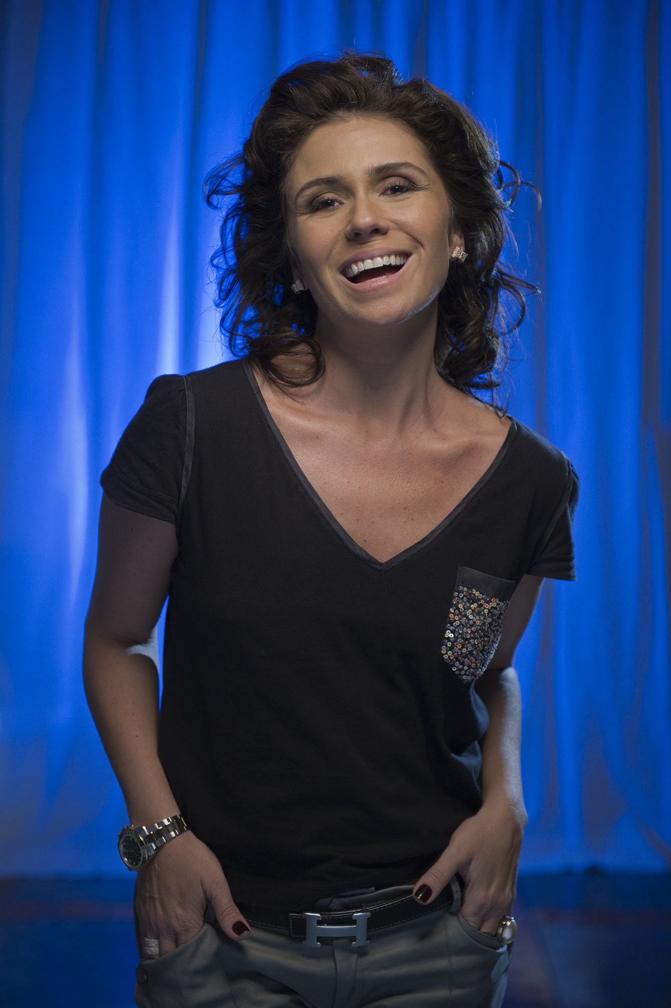 The actress Giovanna Antonelli in 2012